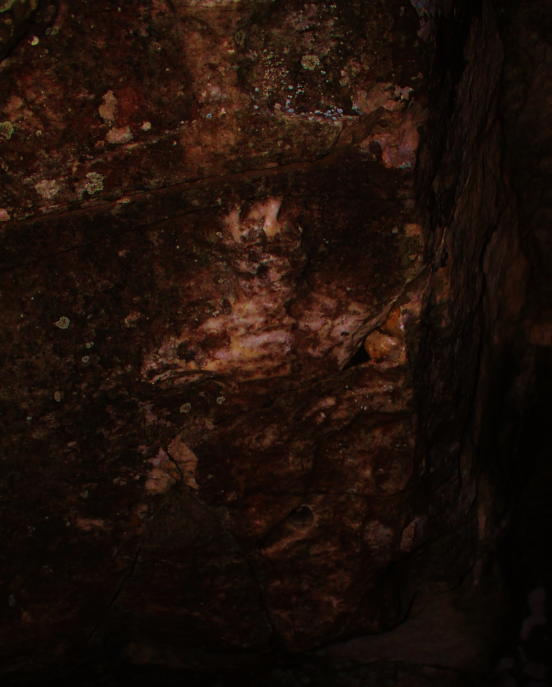 Pan's profile Acropolis Thasos GR